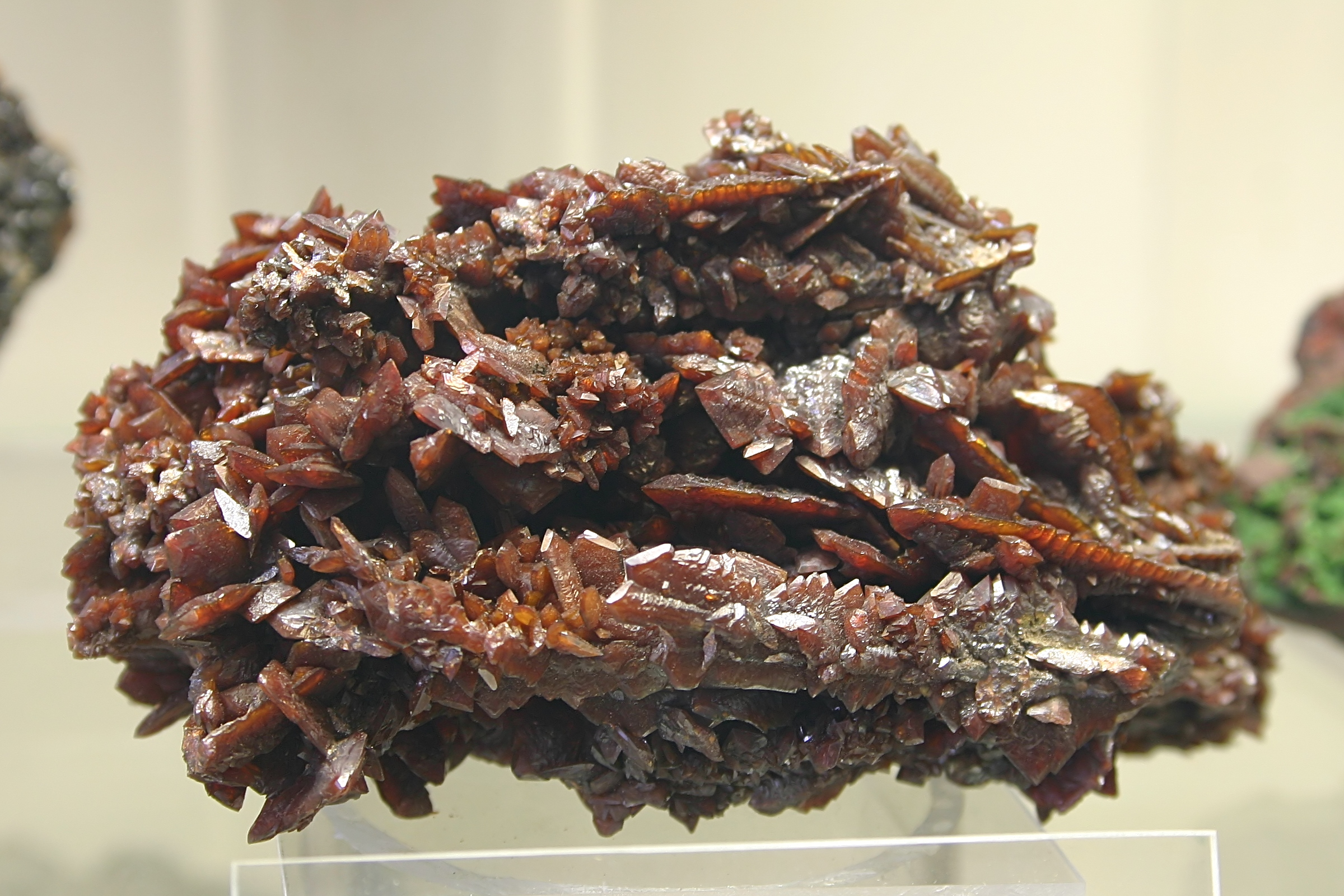 Descloizite. Locality: Eukas mine, Southwest Africa. Exposed in the Mineralogical Museum, Bonn, Germany